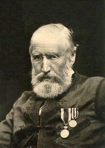 William Simpson with medals Unknown photographer 1864 Watercolour Adrian Lipscomb collection